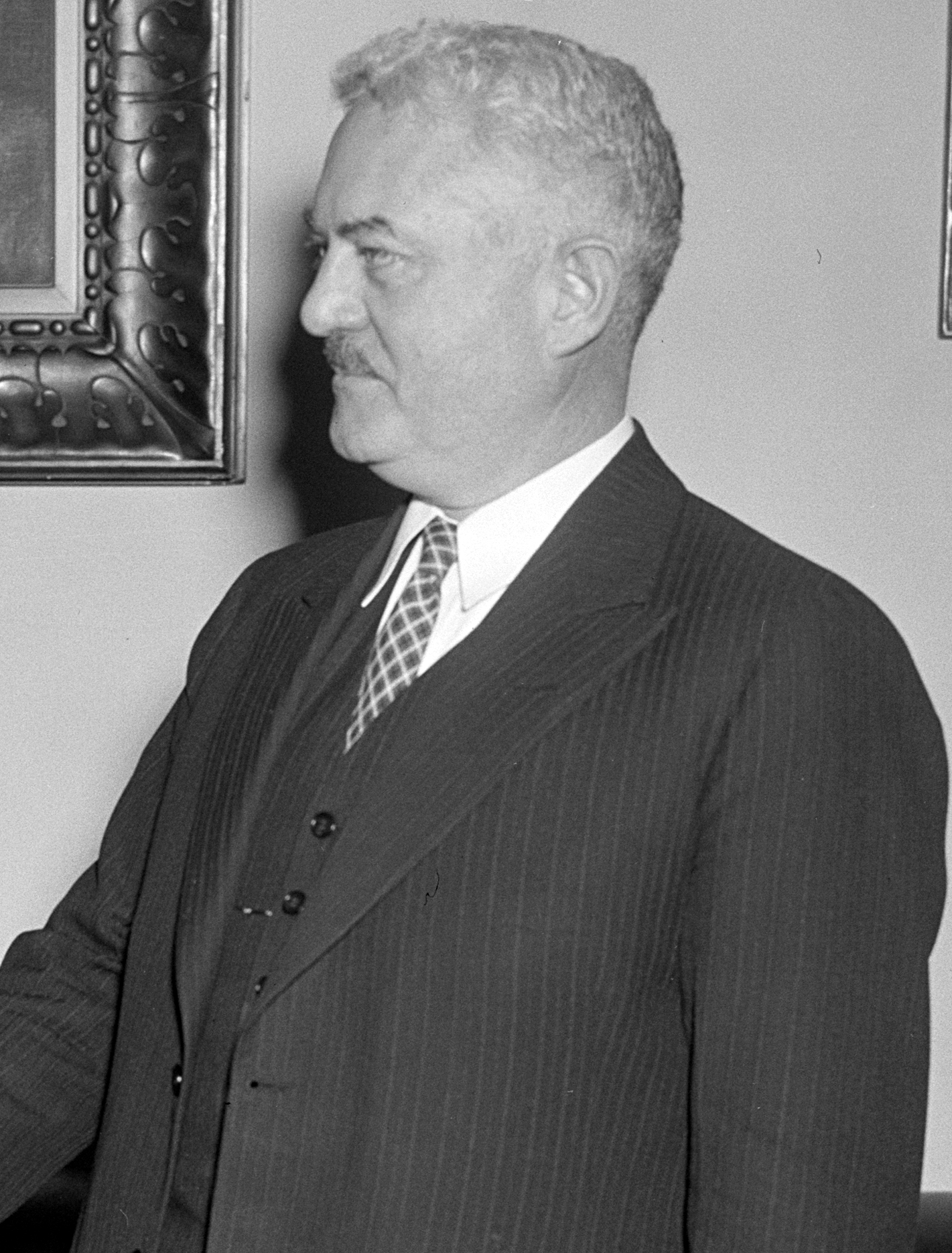 Frank H. Buck, US Representative from California